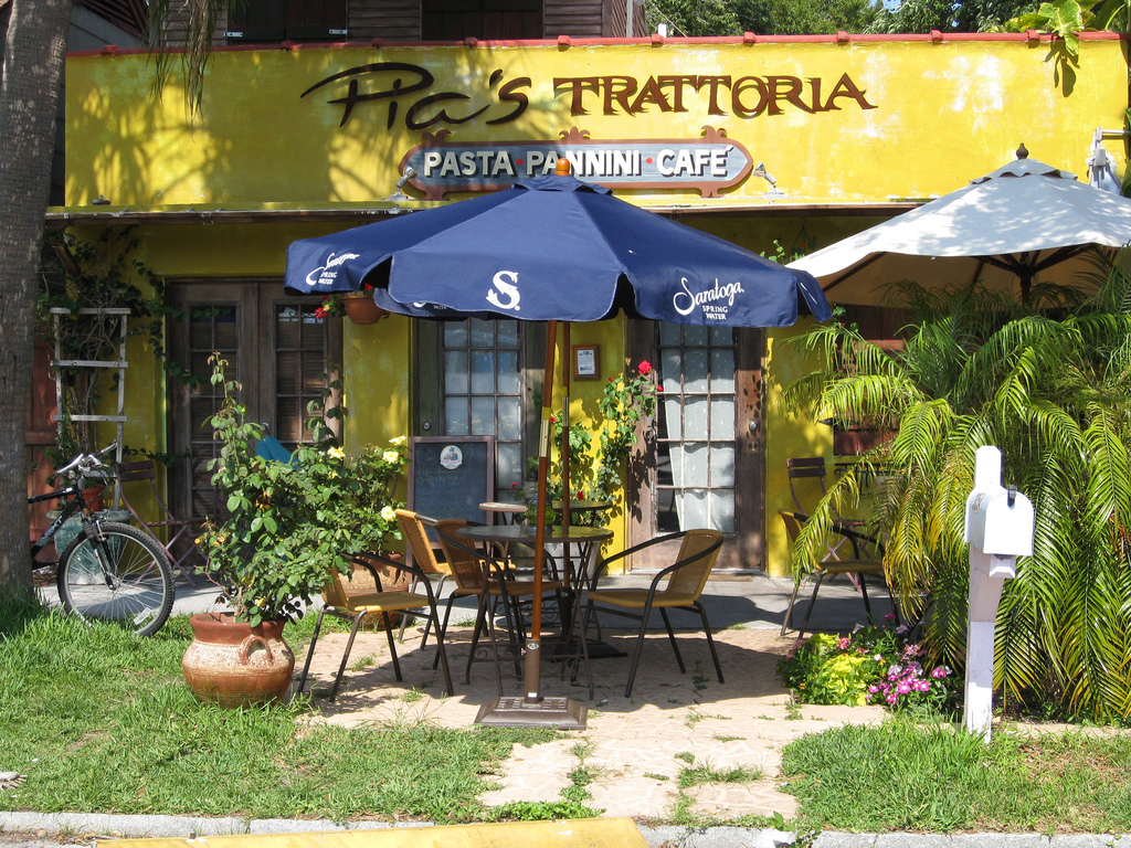 Pia's restaurant downtown gulfport florida